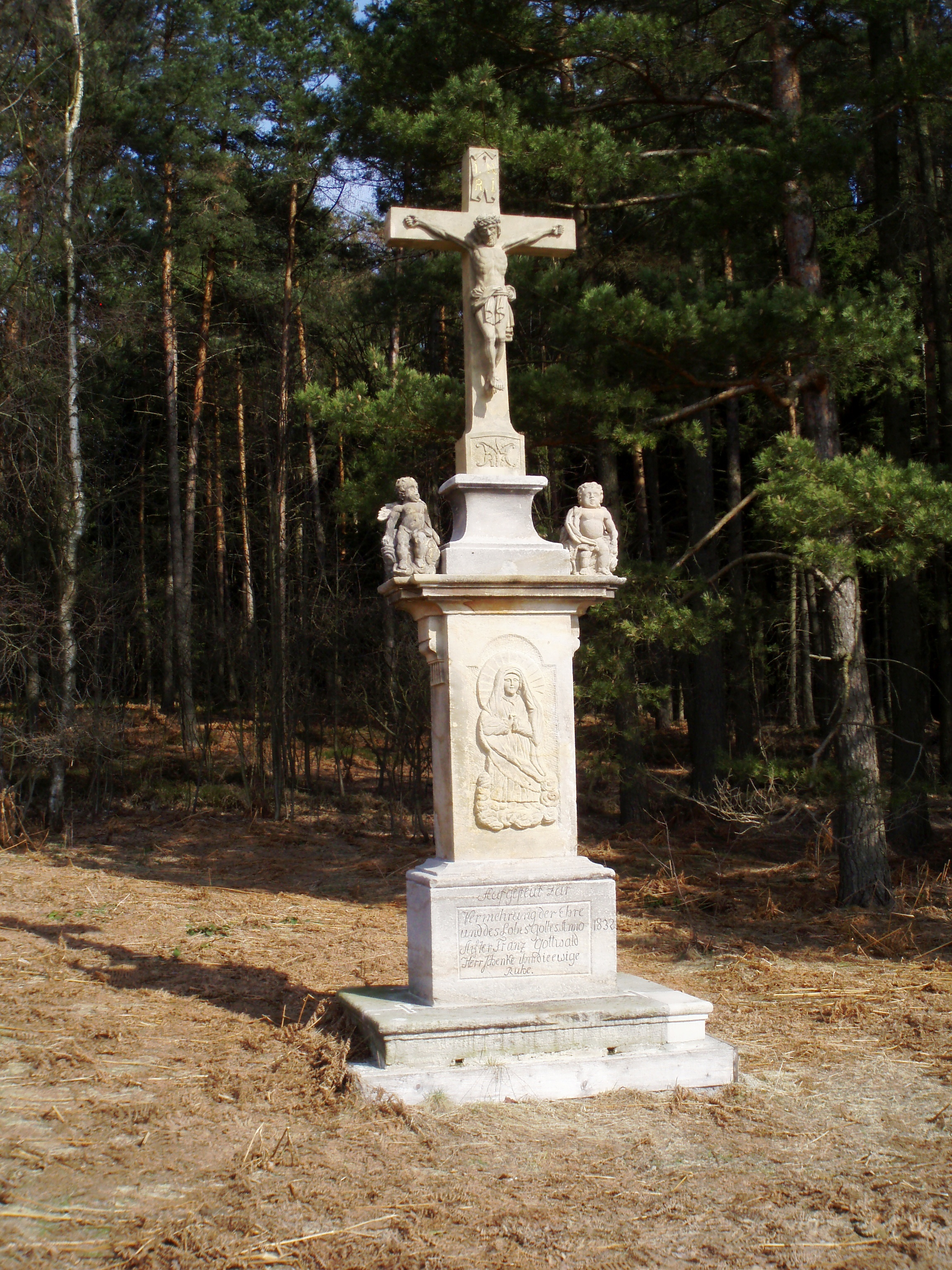 Sandstone crucifix in Komárov (Brzice, Czech Republic)